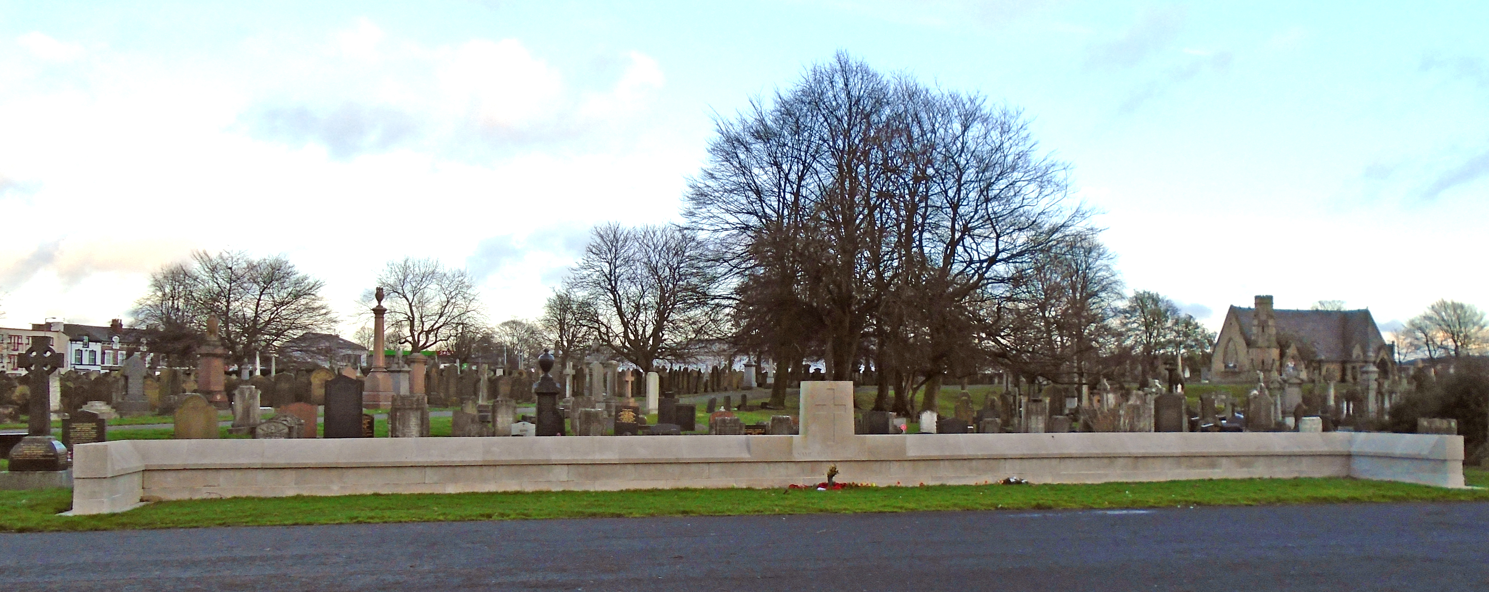 Wide Commonwealth War Graves Commission memorial in Toxteth Park Cemetery. The panels list details of several service personnel.